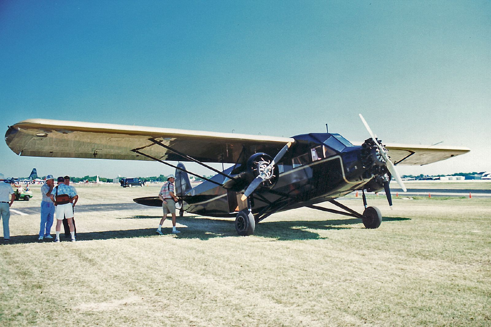 Airventure 1990 (Scan from Photo)